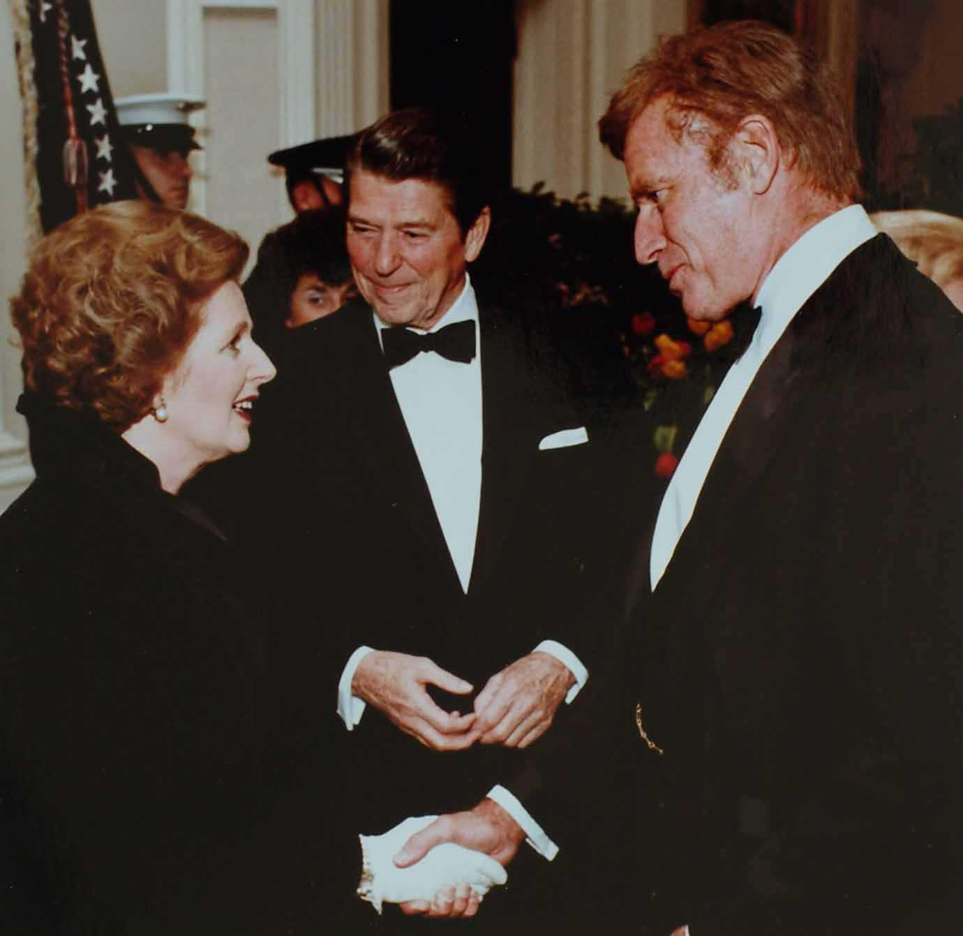 Margaret Thatcher meeting Charlton Heston at a White House state dinner. President Ronald Reagan is in the center.